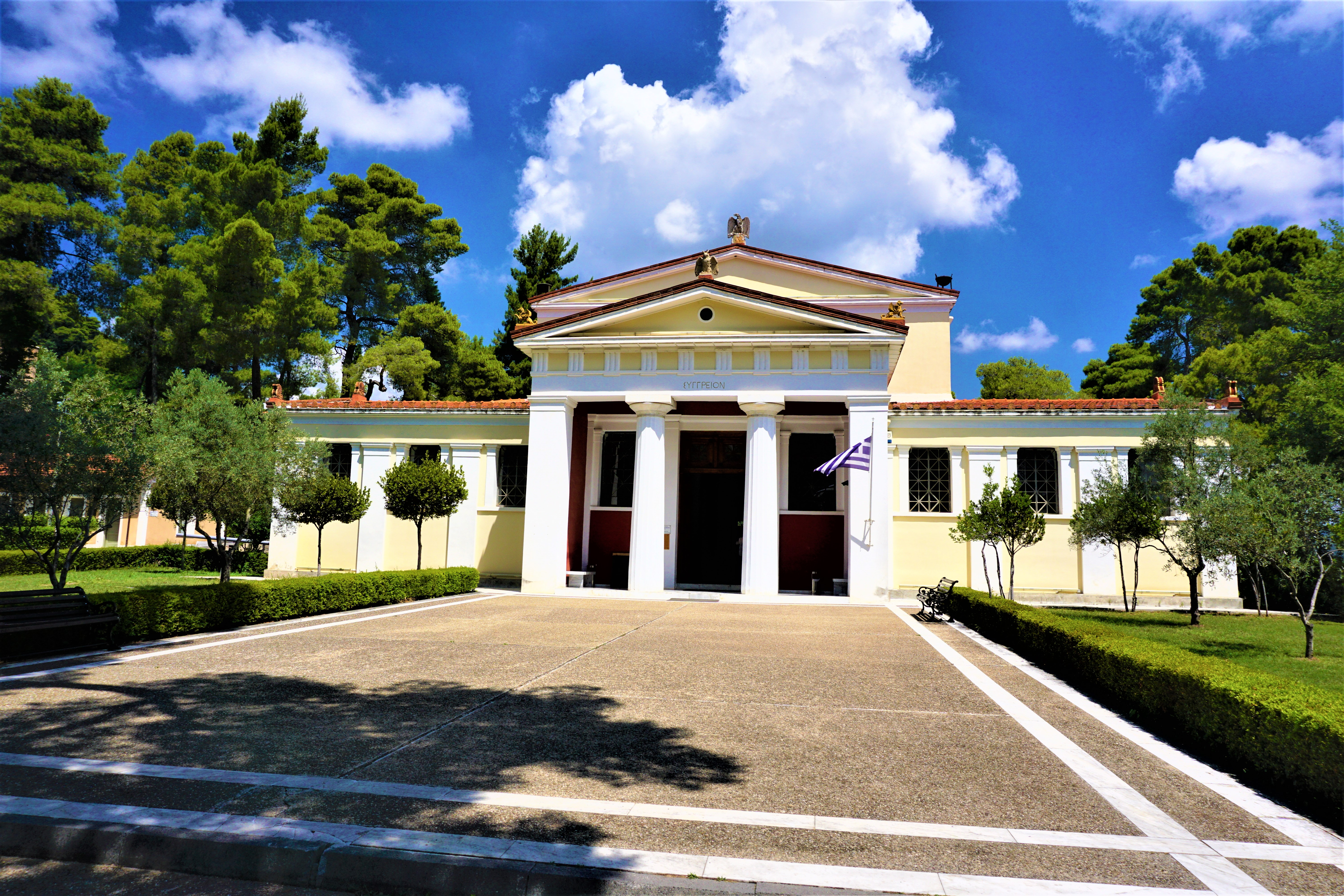 Museum of the History of the Olympic Games of Antiquity by Joy of Museums, for information